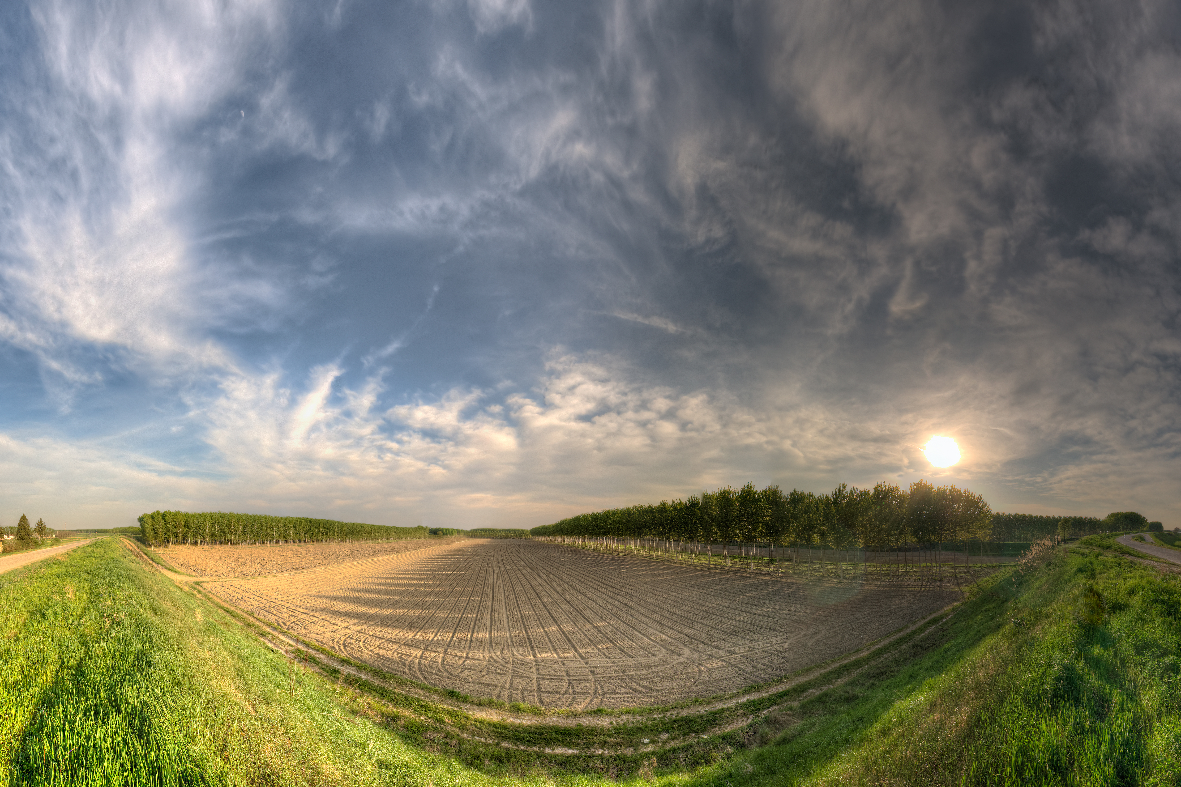 Sunset - Via Argine Po, Viadana, Mantova, Italy